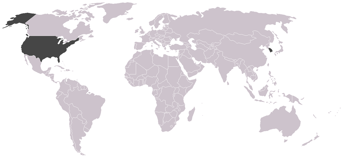 Countries with confirmed double cases (people who were infected twice by the H1N1 virus)